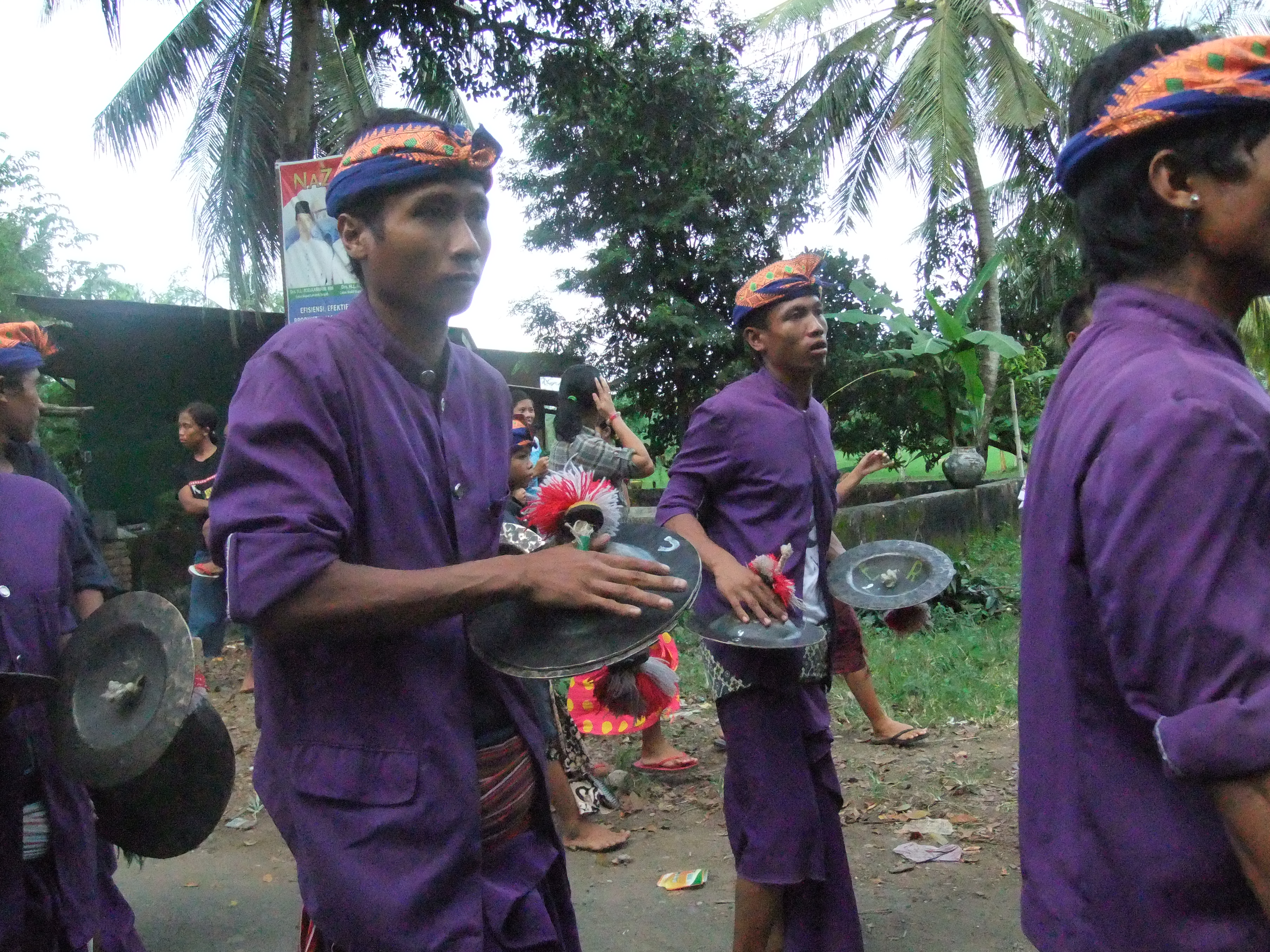 Gendang Beleq, Lombok, Indonesia